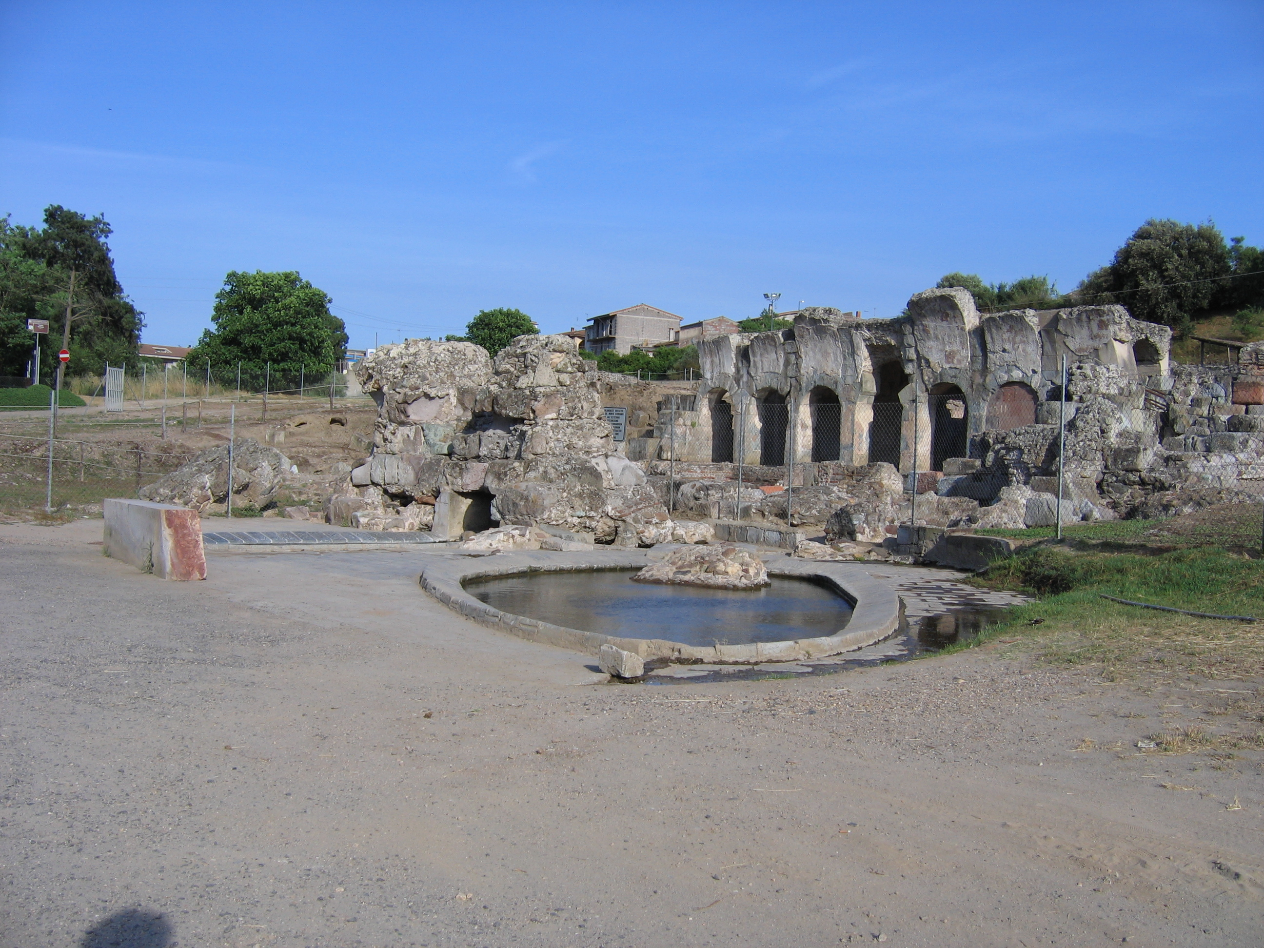 Terme romane di Fordongianus (OR)